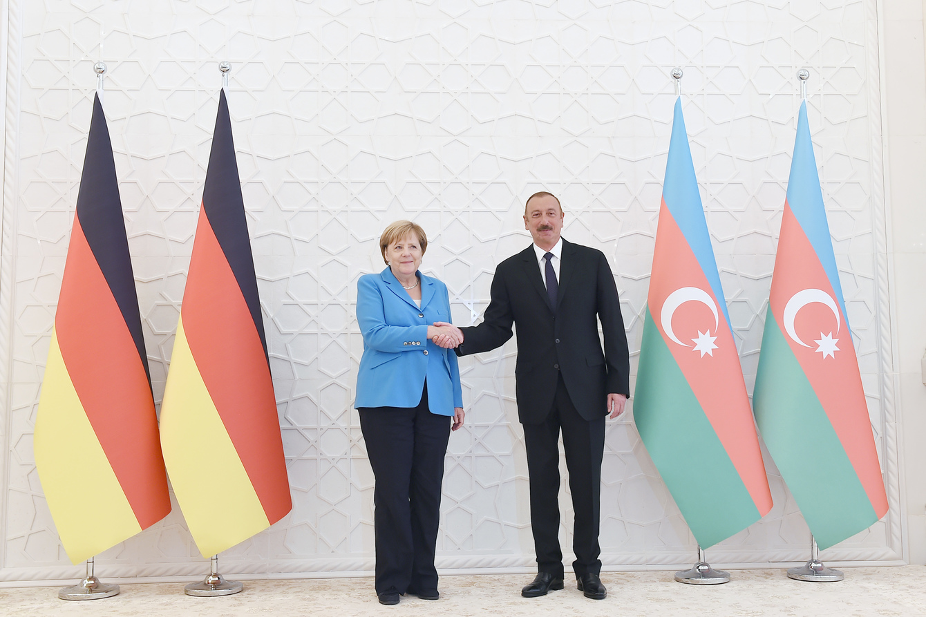 Official meeting ceremony of Federal Chancellor of Germany Angela Merkel was held